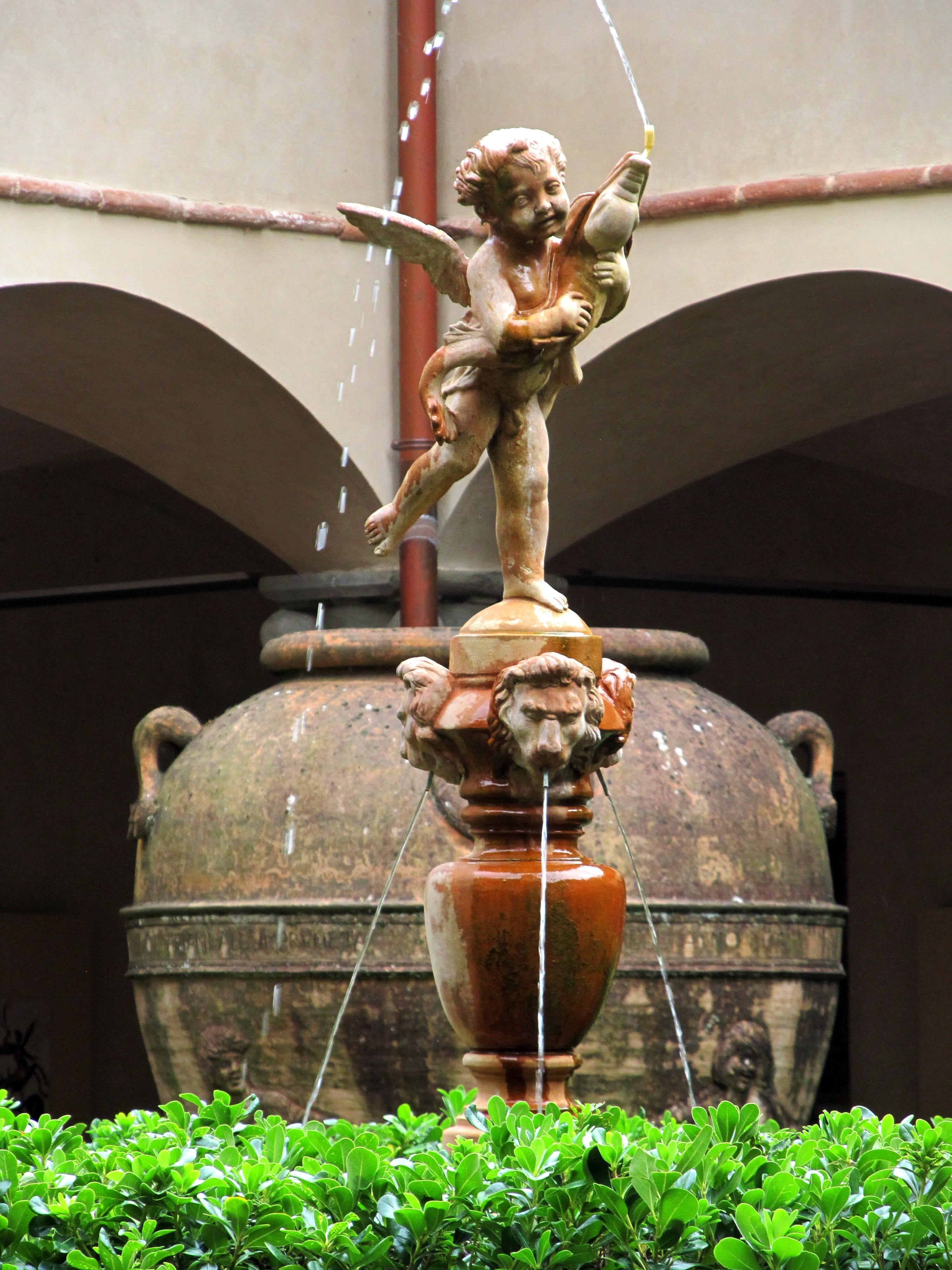 Fountain, with an Orcio behind it — in Impruneta, Province of Florence, Tuscany, Italy.